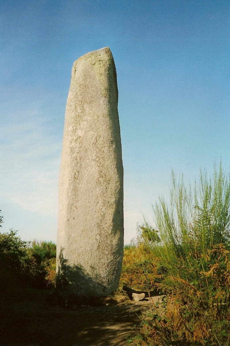 Kerloaz Menhir, Plouarzel, Finistère, Brittany. The highest menhir in Europe .